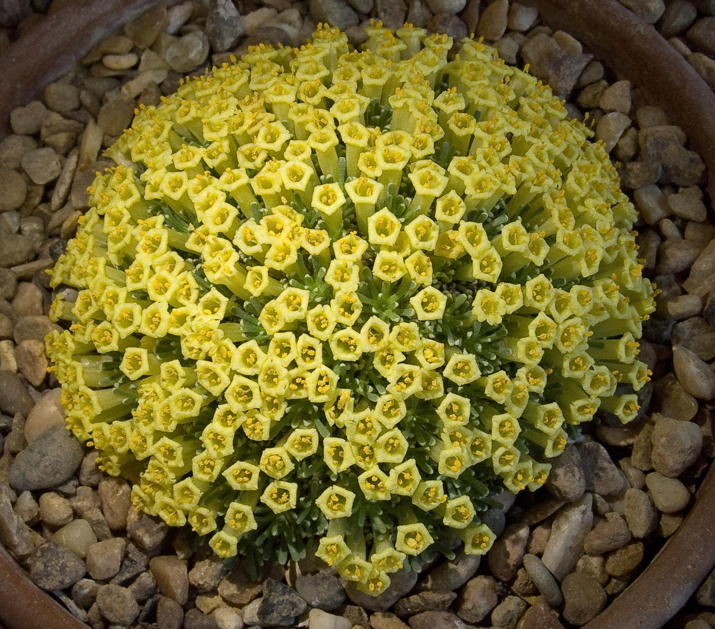 Benthamiella patagonica in cultivation as an alpine show plant. Photographed at the Midland Show of the Alpine Garden Society.